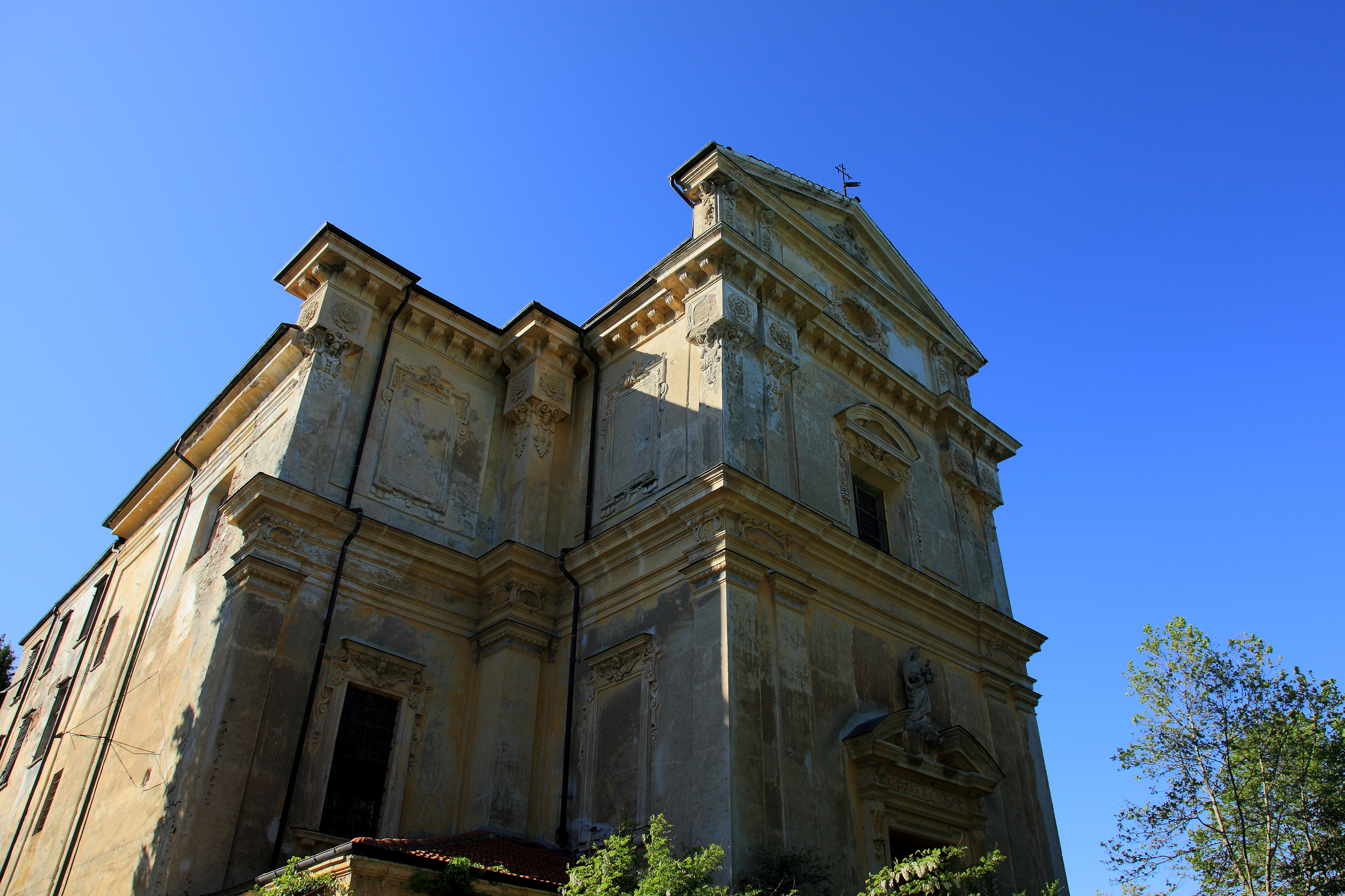 View of the church of the Eremo of Lanzo Torinese (TO) - Italy